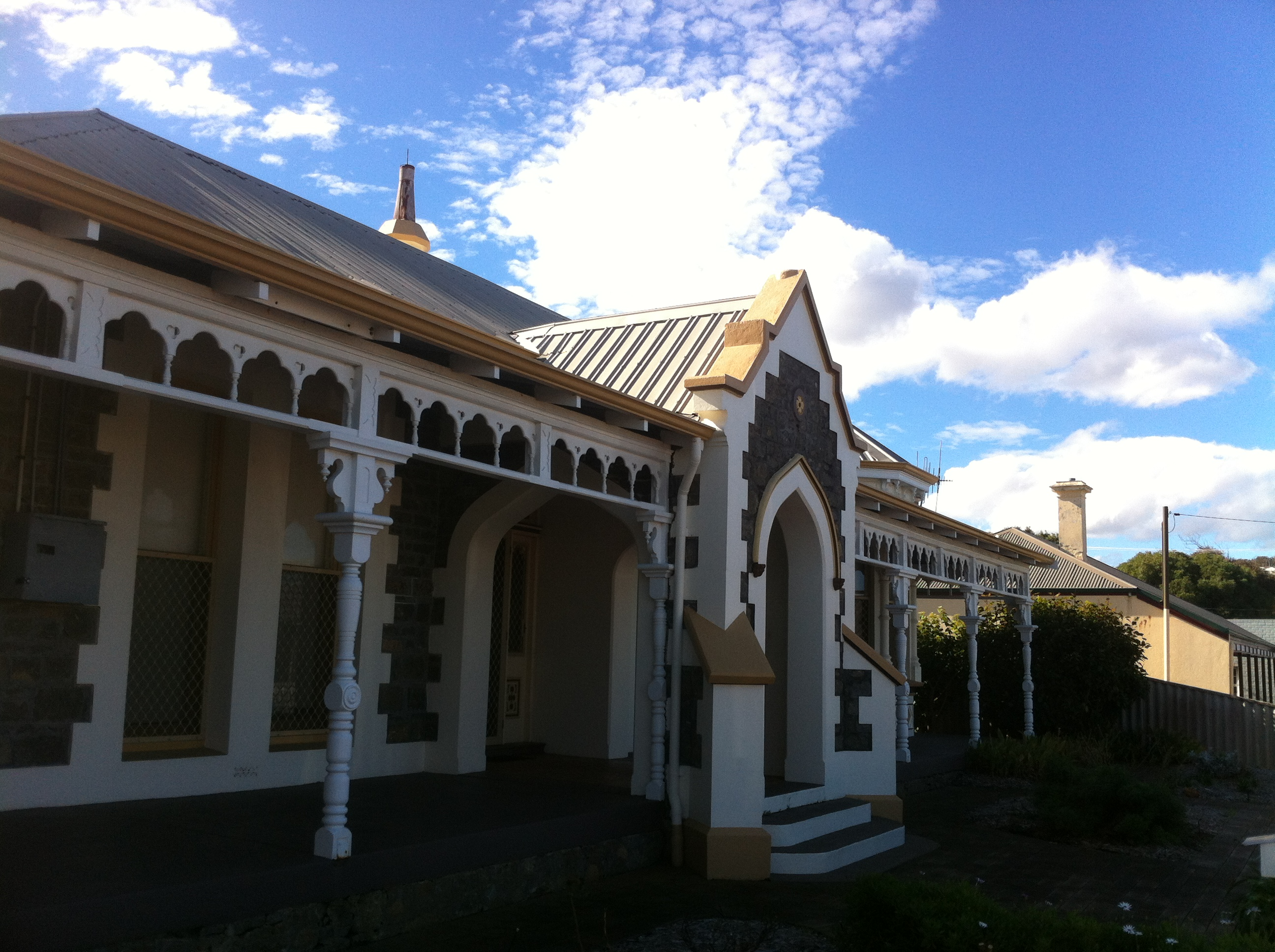 Wesley Church Manse, Albany